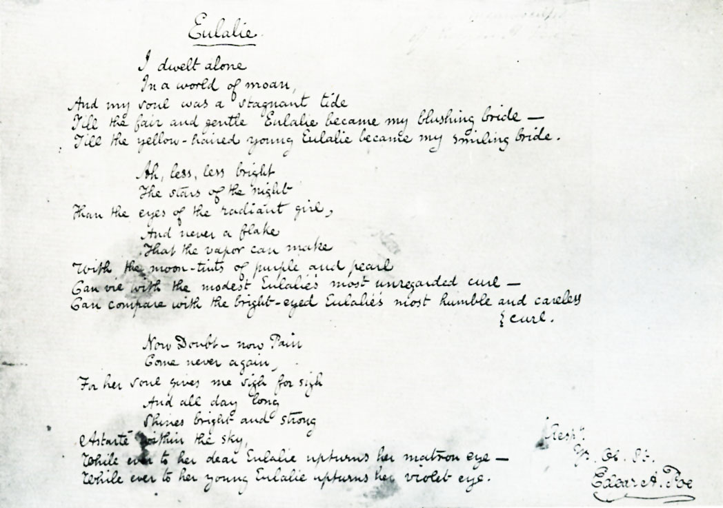 Manuscript of "Eulalie" by Edgar Allan Poe. Poe's signature appears on the bottom right corner.